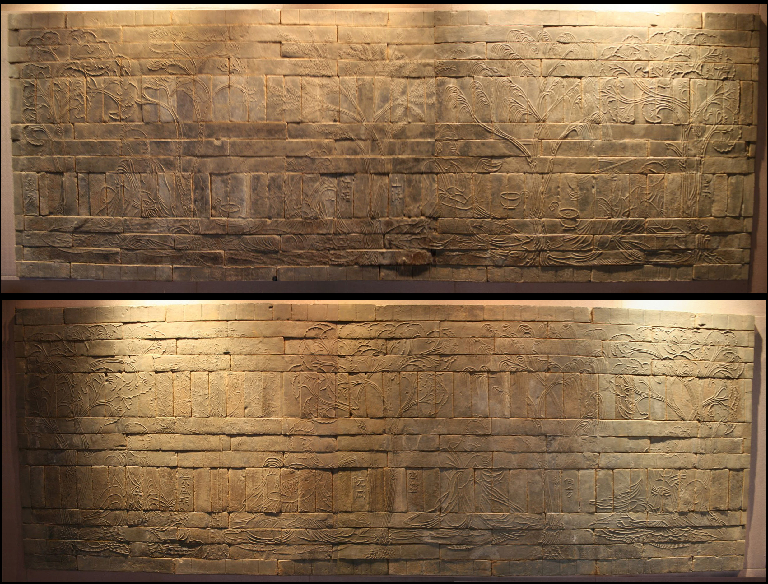 Molded-brick mural, identified as the "Seven Sages of the Bamboo Grove and Rong Qiqi", one of two walls apart of the coffin found in a tomb of the capital region of the Southern dynasties (5th-6th. c.), second half of the fifth century, at Xishanqiao, near Nanjing. 88 x 240 cm. Nanjing Museum. This part of the murals may reflect a composition of the famous Lu Tanwei, considered as the single greatest painter of all times by the chinese critic Xi He (act. 500-536) : ref. from China : Dawn of a Golden Age, 200-750 AD, The Metropolitan Museum of Art, Yale University Press 2004. Upper image : we can recognize Ji Kang (223-262), on the left, under a gingko tree. Lower image : We can recognize from left to right Xiuang Xiu (228-281) under a gingko tree, Liu Ling (ca.221-ca.300), Ruan Xian (230-281) and Rong Qiqi (presumably act. 5th cent BC), a contemporary of Confucius, under a gingko tree too.